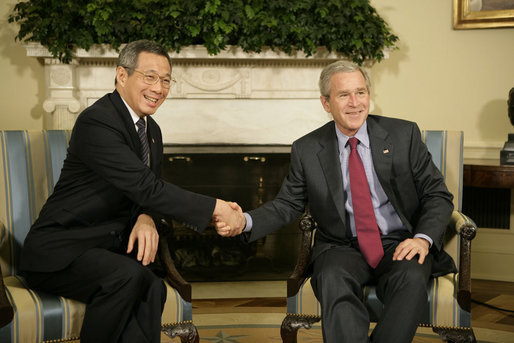 US President George W. Bush welcomes Prime Minister Lee Hsien Loong of Singapore to the Oval Office Friday, May 4, 2007. Said the President after their meeting, "There is no better person to talk about the Far East with than Prime Minister Lee. He's got a very clear vision about the issues, the complications, and the opportunities."